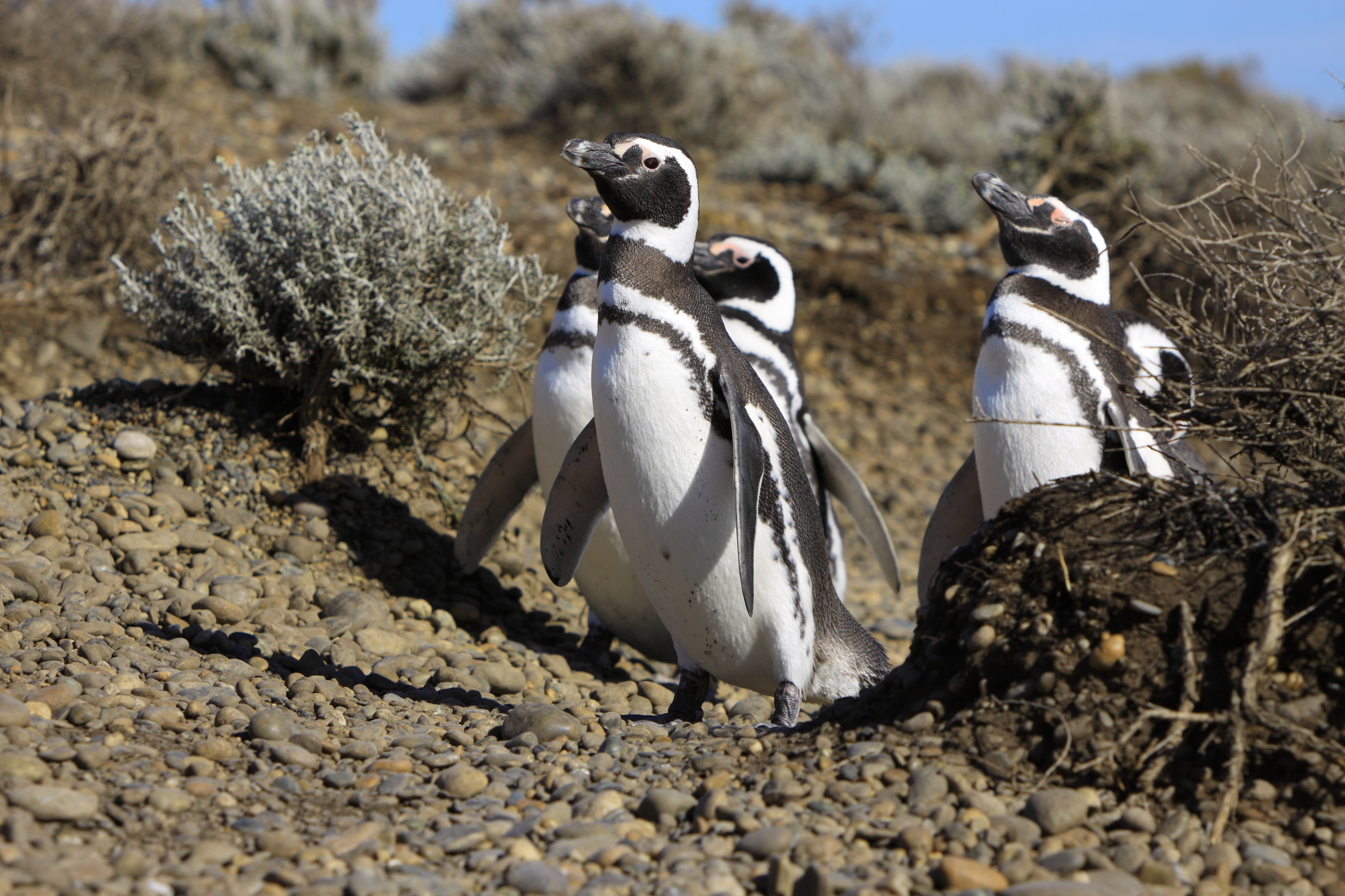 Please, have this description accessible to all by translating it in different languages.